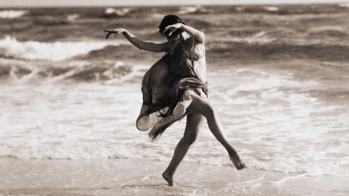 Anna Duncan at Long Beach, 1917, by Arnold Genthe